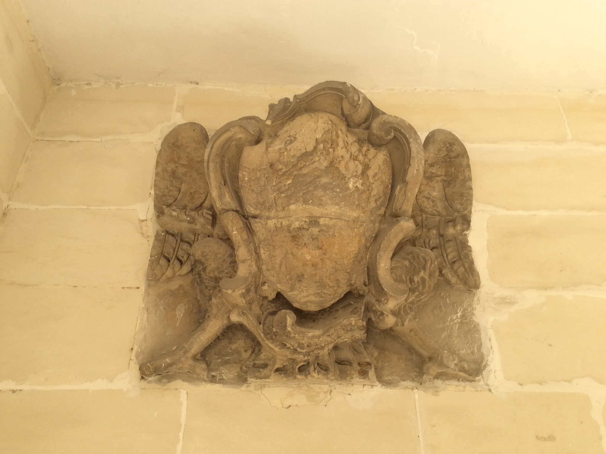 Defaced and broken coat of arms, probably of Grand Master Emmanuel de Rohan-Polduc (reigned 1775–97), on the veranda of the Santa Venera police station. Read also